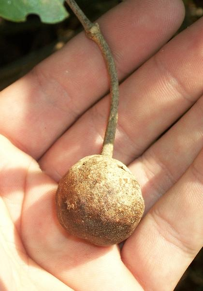 Dry fruit of Capparis tomentosa growing as shrub on the edge of a cliff in Ilanda Wilds, Amanzimtoti, South Africa